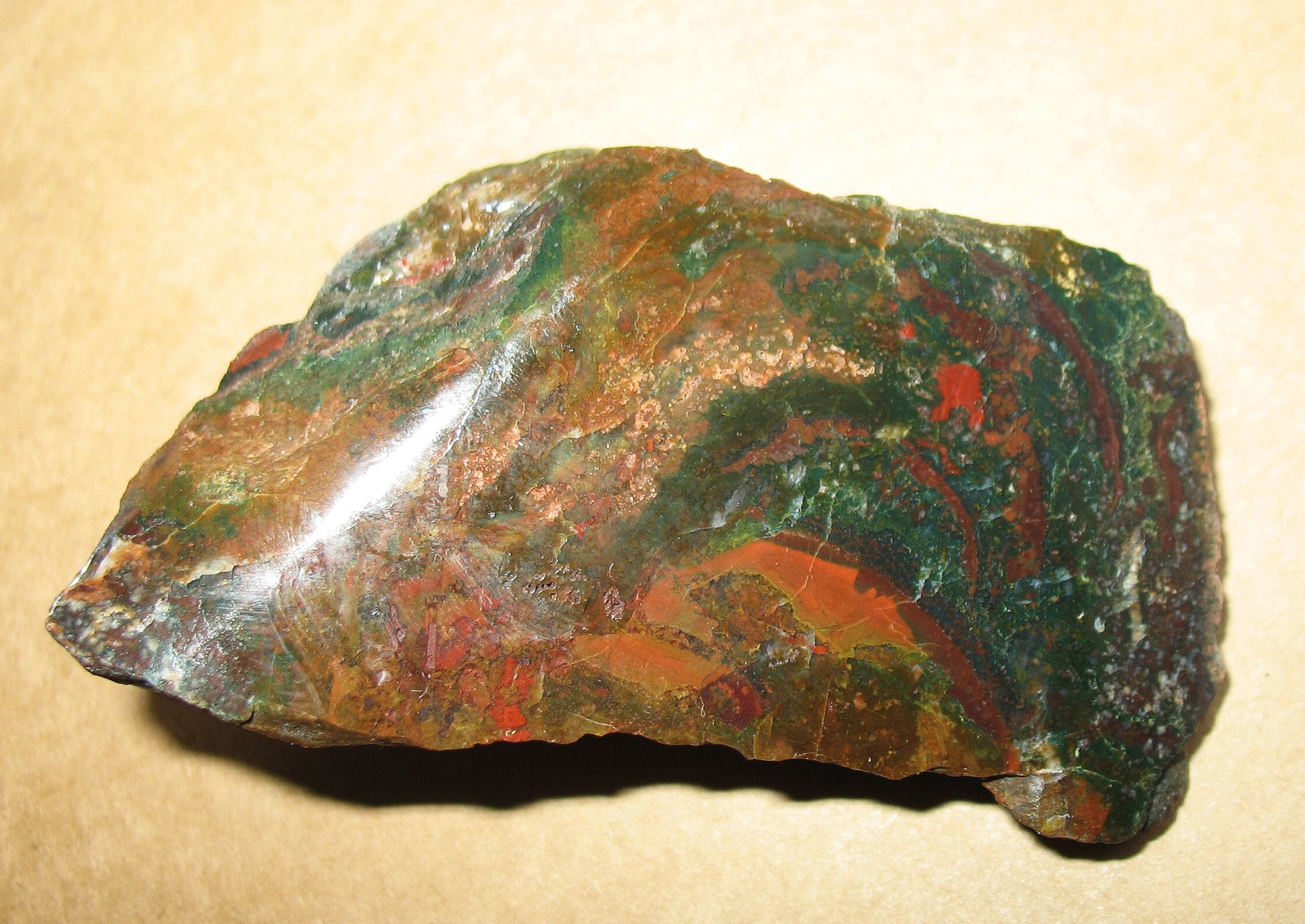 Locality Kozákov, Czech Republic